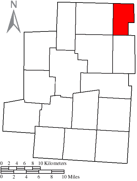 Originally created by the US Census. Modified by myself to highlight the township.